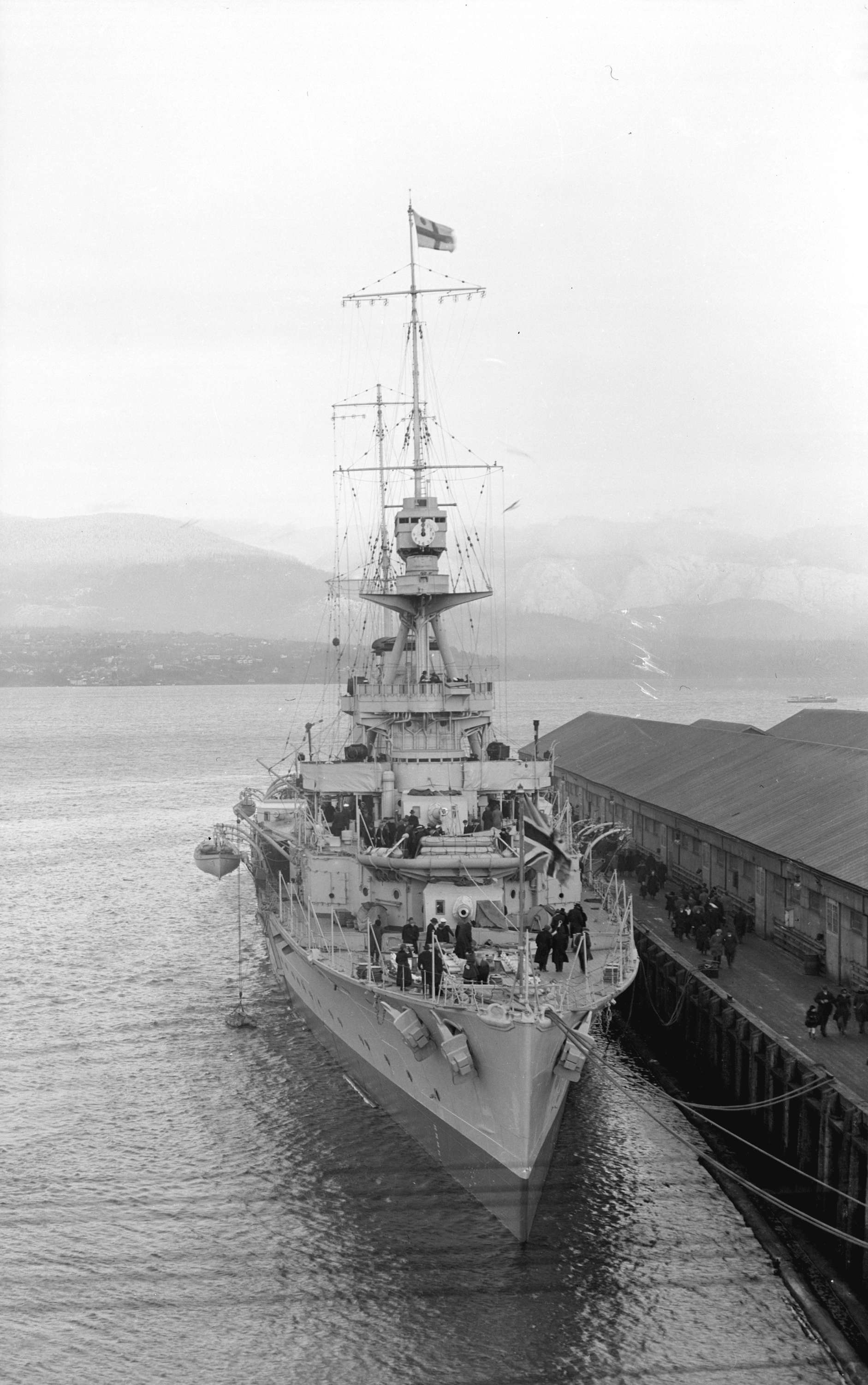 HMS Raleigh at Vancouver.